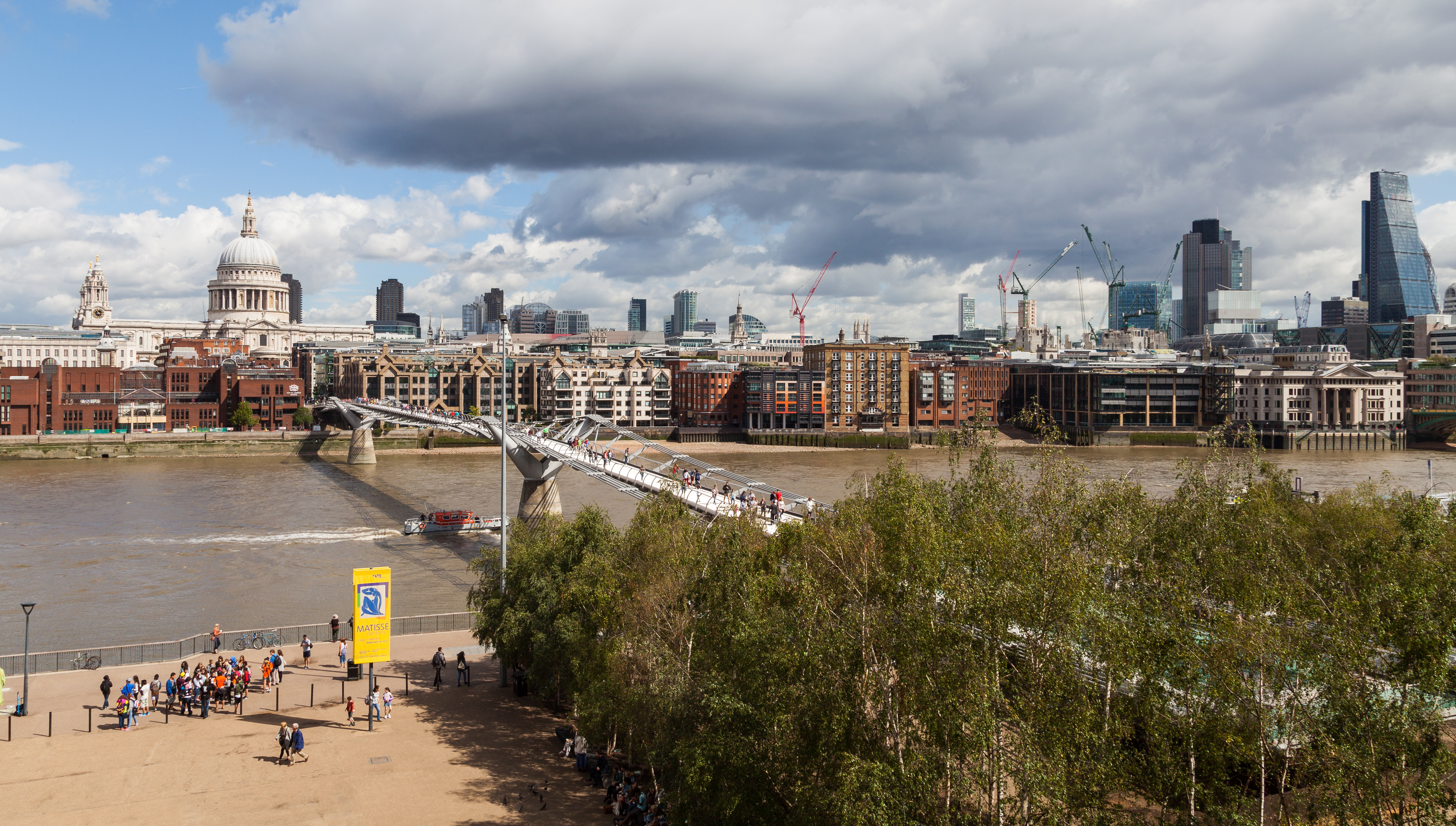 St Paul's Cathedral in the North Bank of the Thames from Tate Modern, London, England